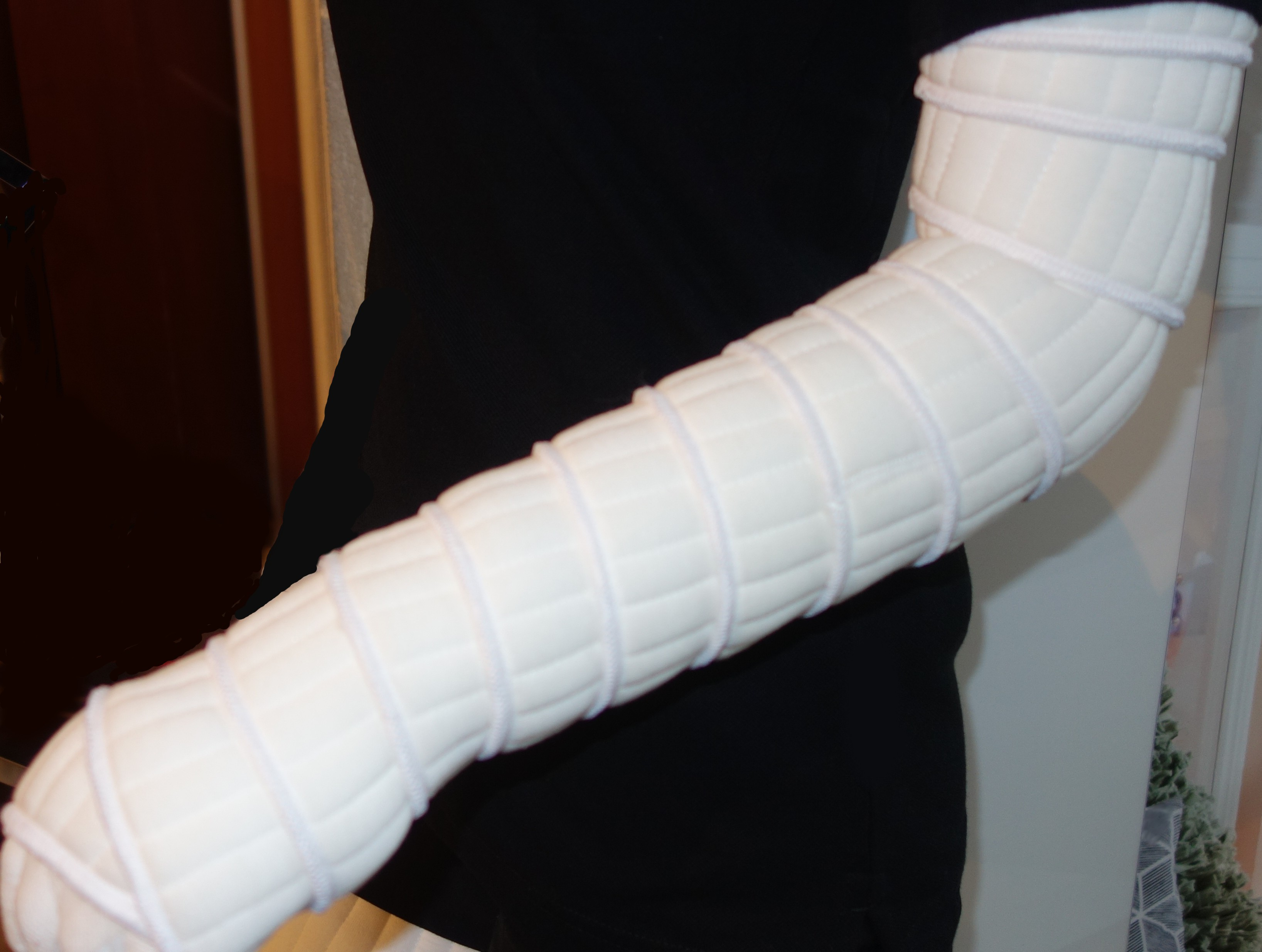 Padding for compression therapy of lymphatic edema